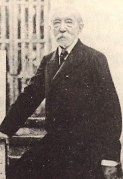 foto comune